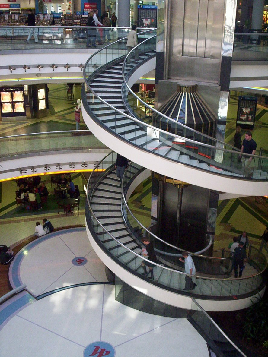 Westfield Belconnen in Canberra, Australia. I took the photo Cfitzart 00:44, 27 August 2005 (UTC)